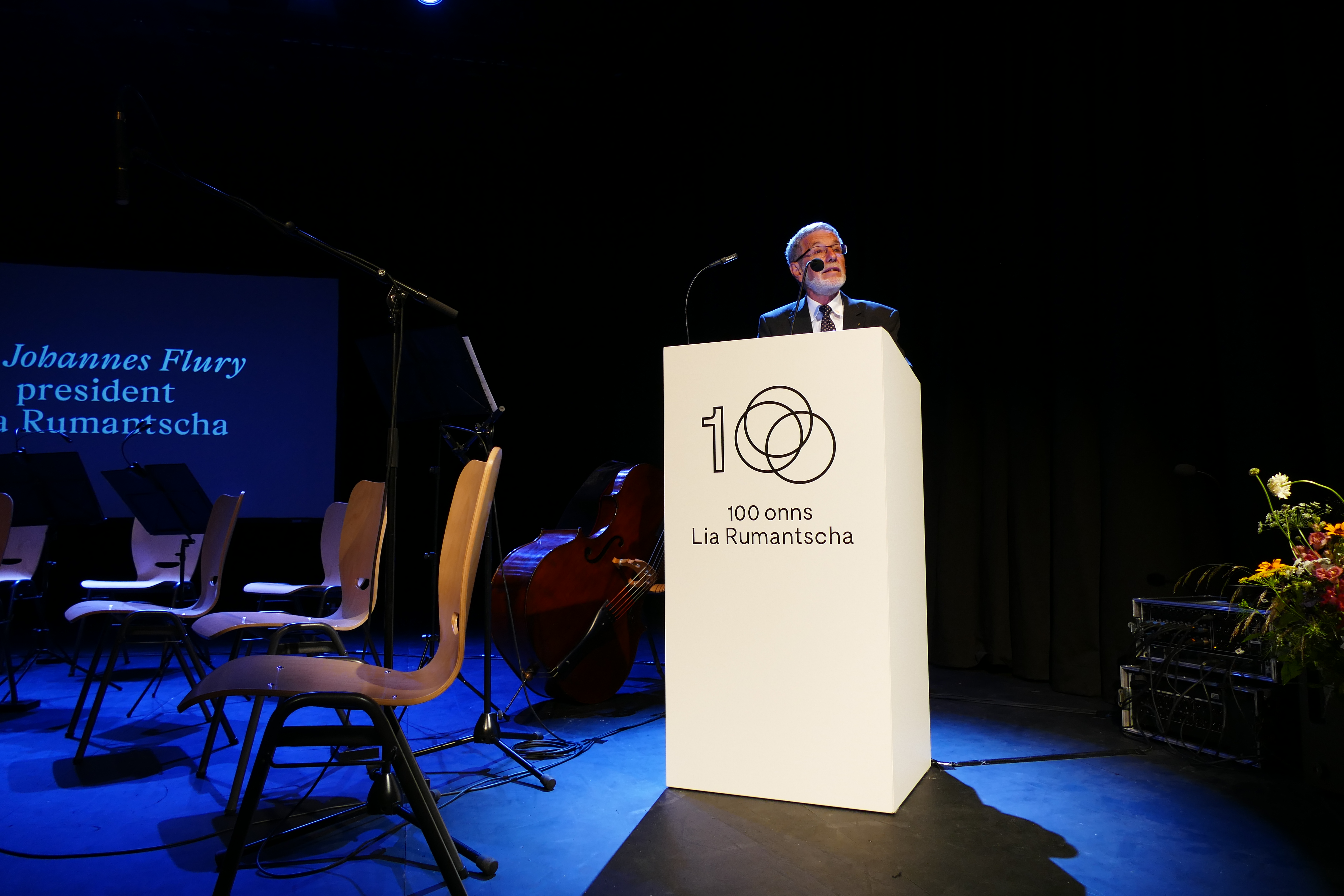 At the centenary jubilee of the Lia Rumantscha, the Romansh language association, in Zuoz (Switzerland), 2019-08-02.